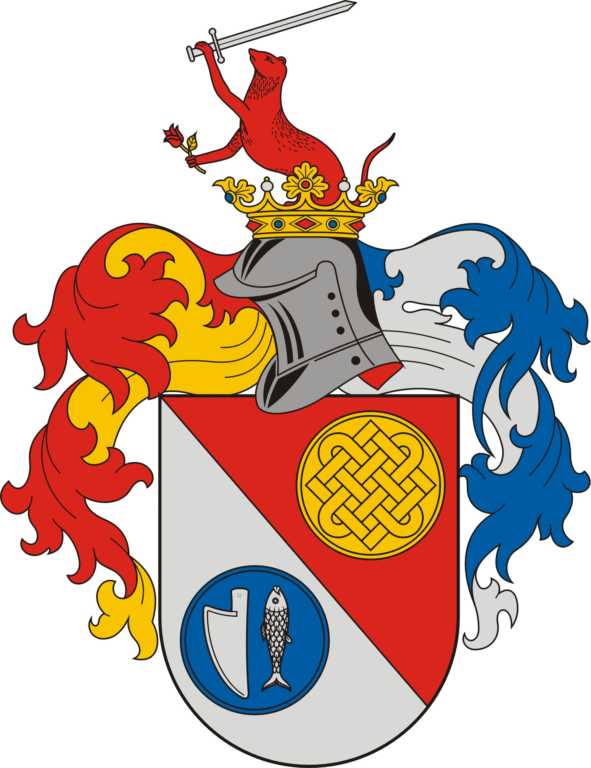 Coat of arms of Gyulaháza, Hungary